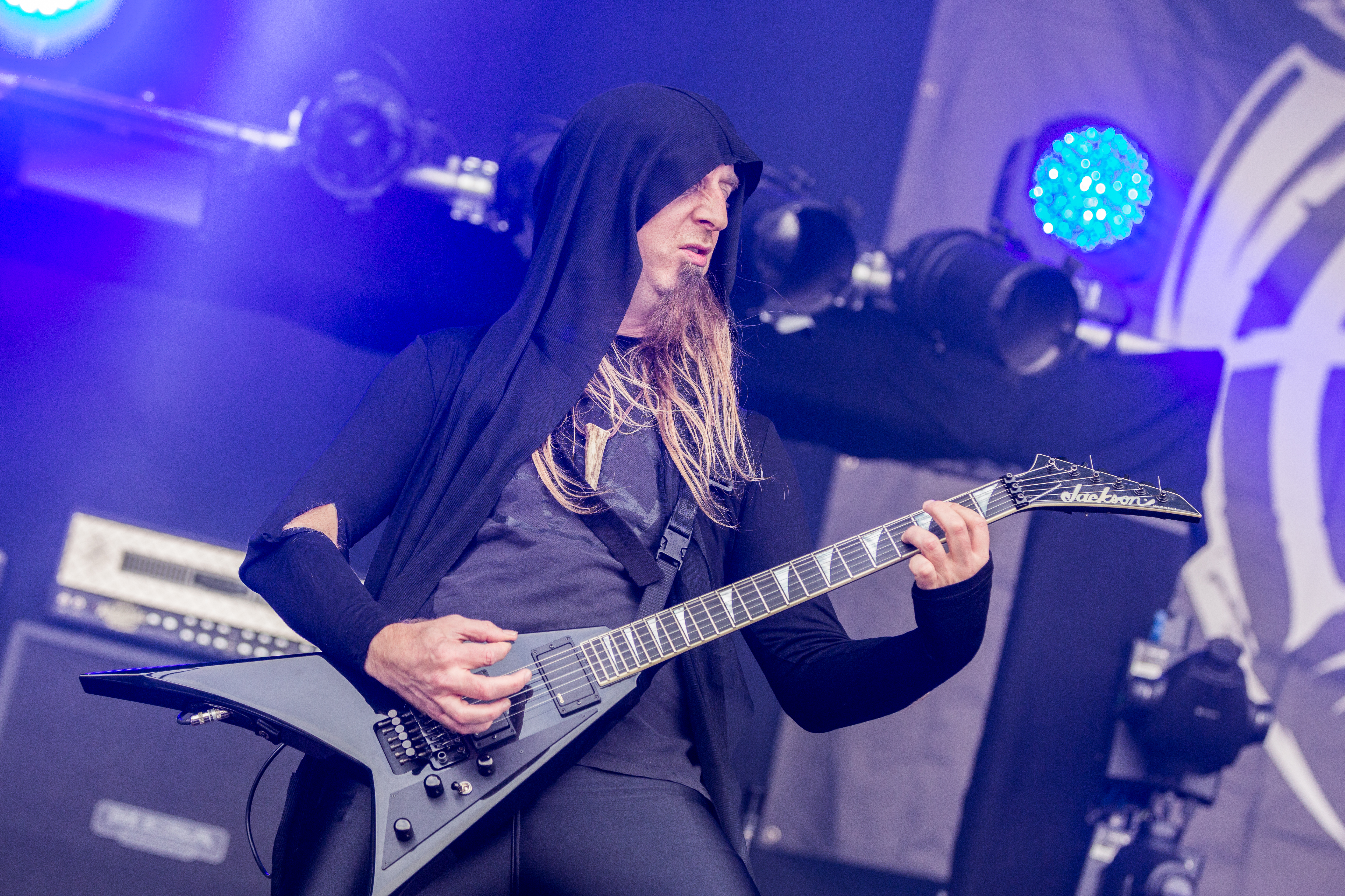 The Norwegian progressive black metal band Hades Almighty at the Party.San Metal Open Air 2017 in Obermehler-Schlotheim/Germany.